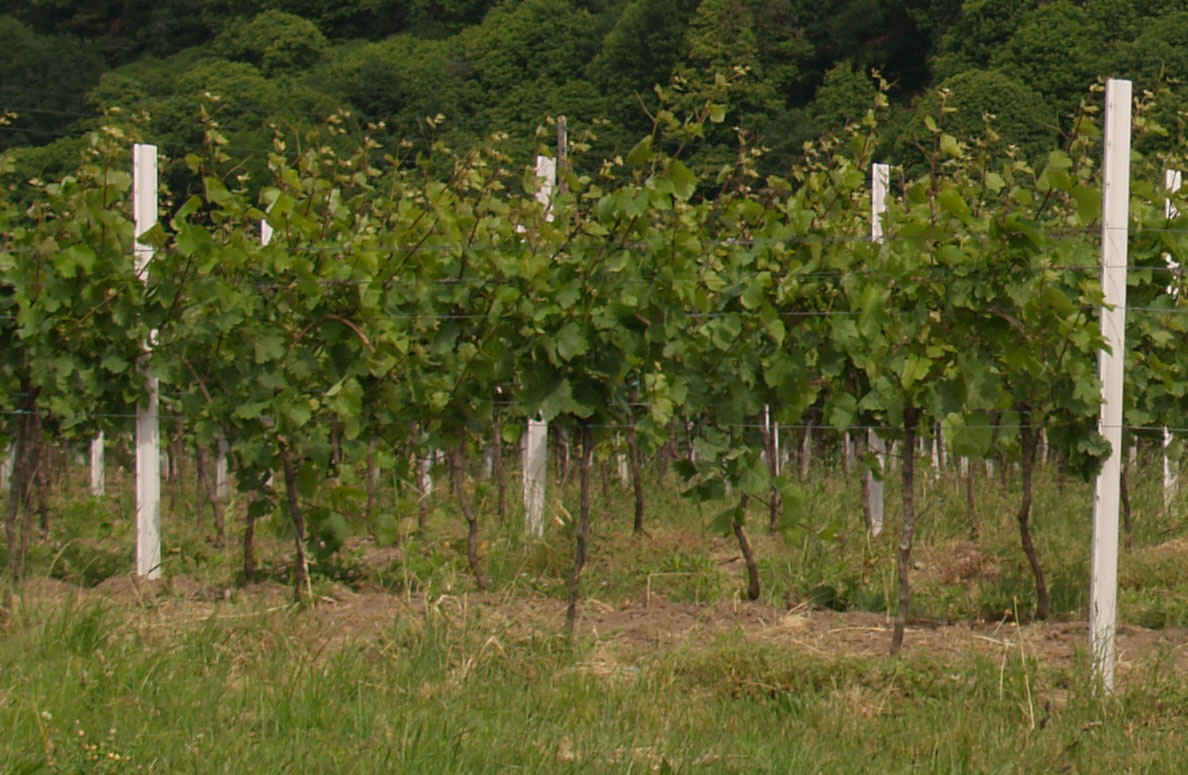 vine with espalier